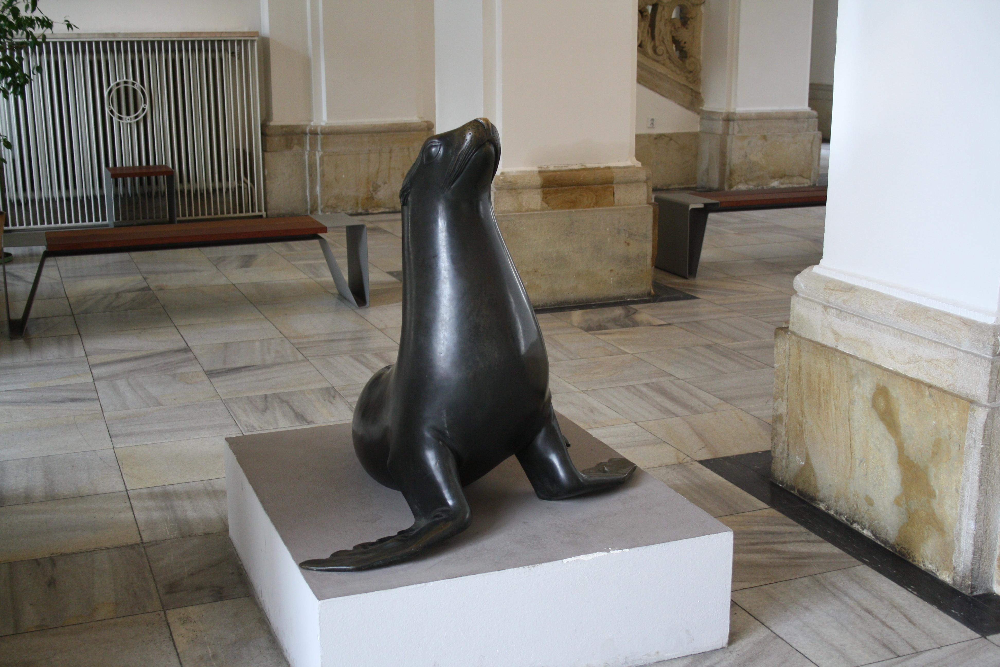 Statues of sea lion in Moravian gallery in Brno at summer 2009.